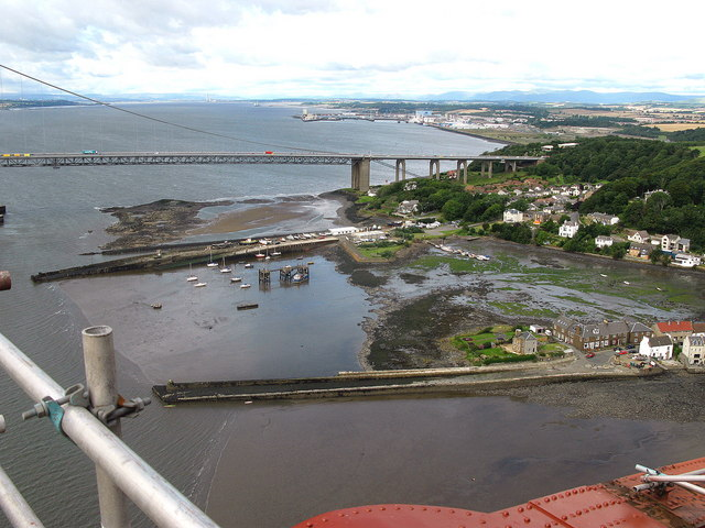 Piers and Forth Road Bridge Taken from the Forth rail bridge. Photograph taken by Neil Armstrong